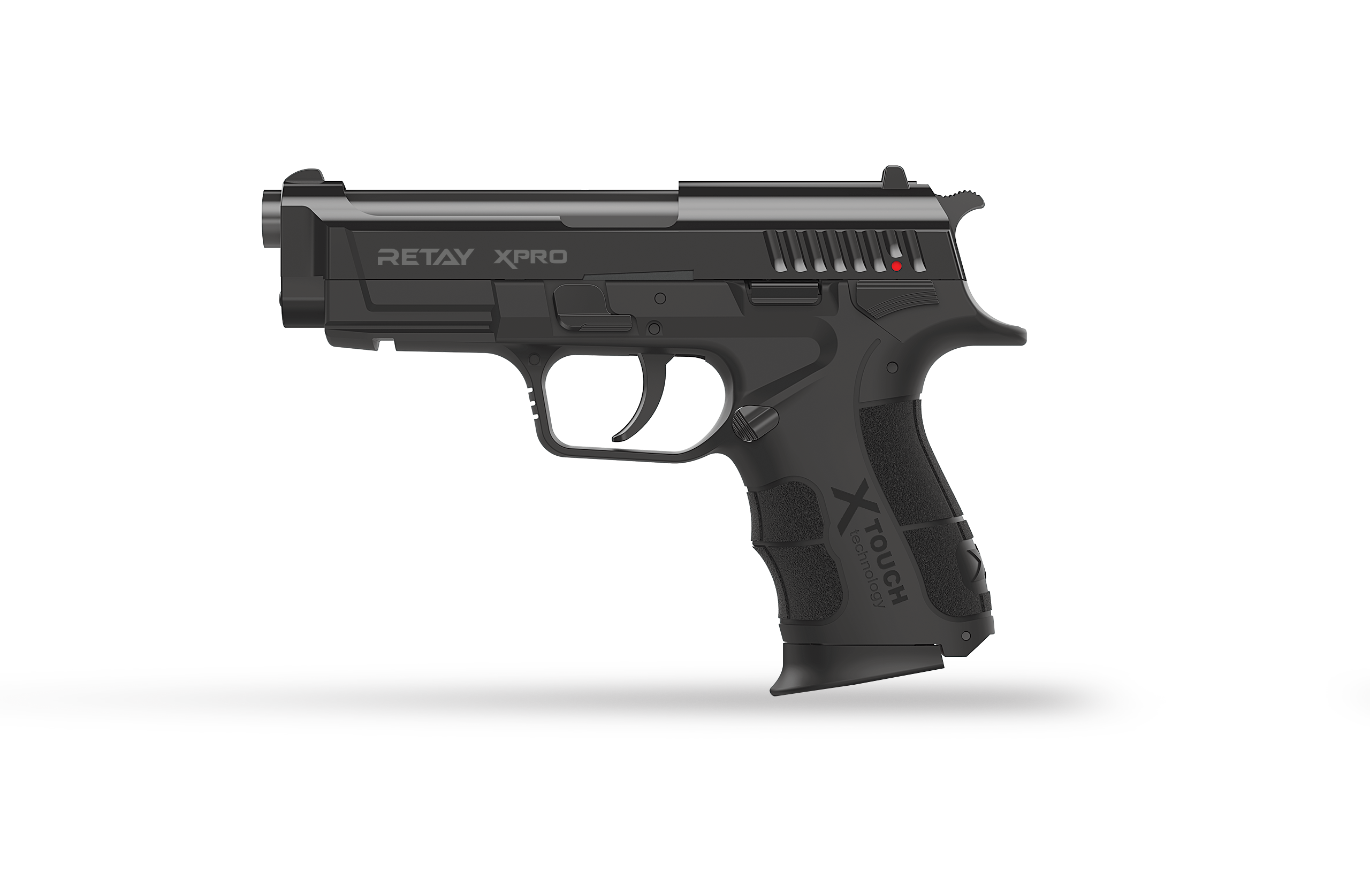 Xpro starter pistol